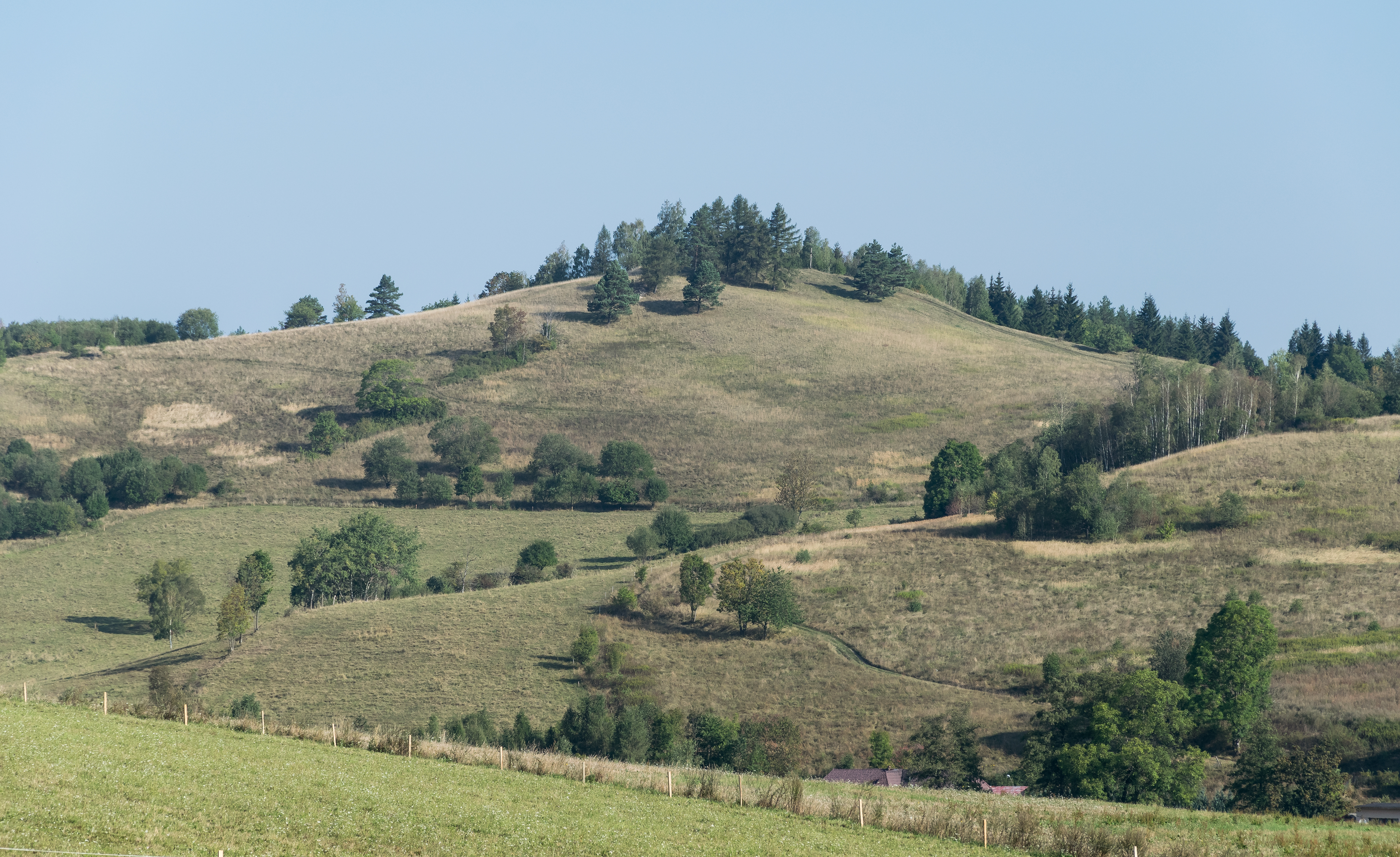 Sędzisz, Krowiarki, Sudetes This is a photography of protected area with CRFOP ID PL.ZIPOP.1393.N2K.PLH020019.H